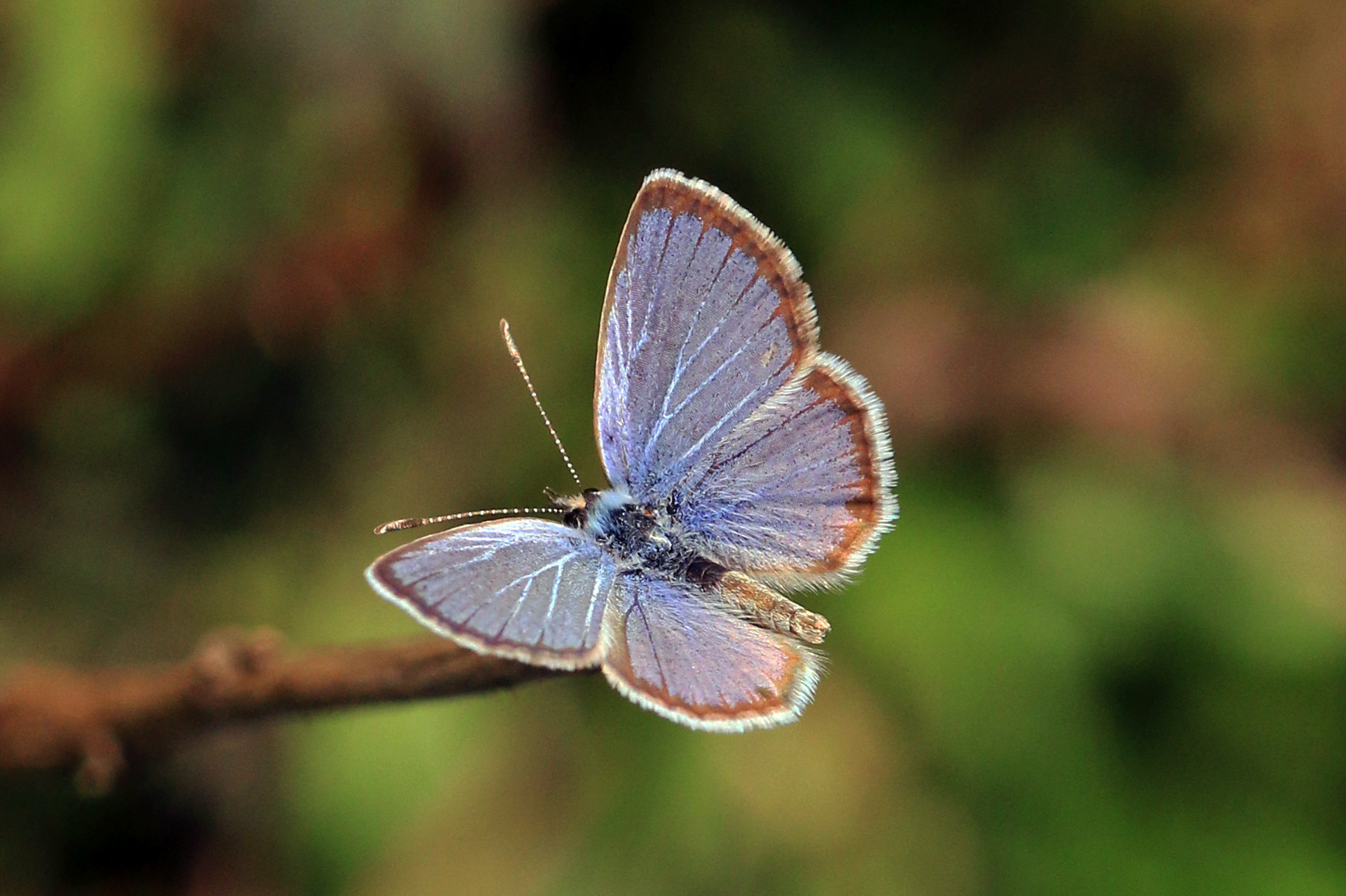 Hanno blue (Hemiargus hanno filenus) male, Cuba